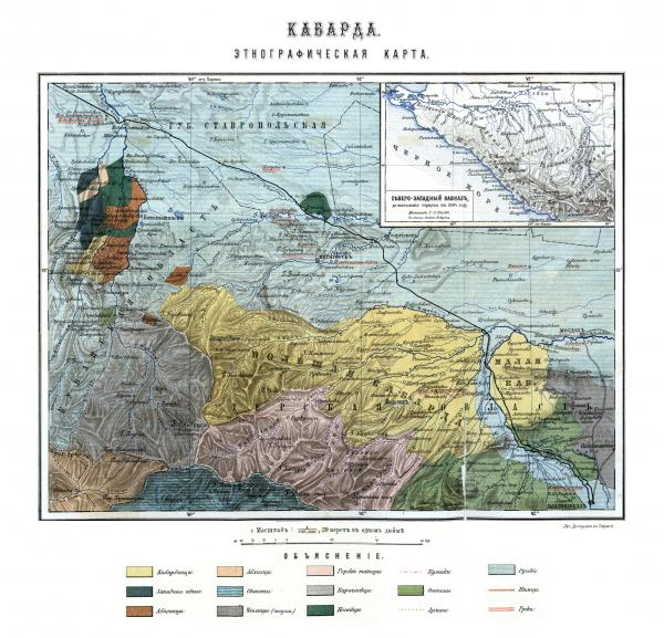 "Ethnographic map of Kabarda", an illustration from K.P. Yanovsky's Collection of the Materials for the Places and Tribes of the Caucasus (in Russian, 1881-1915)